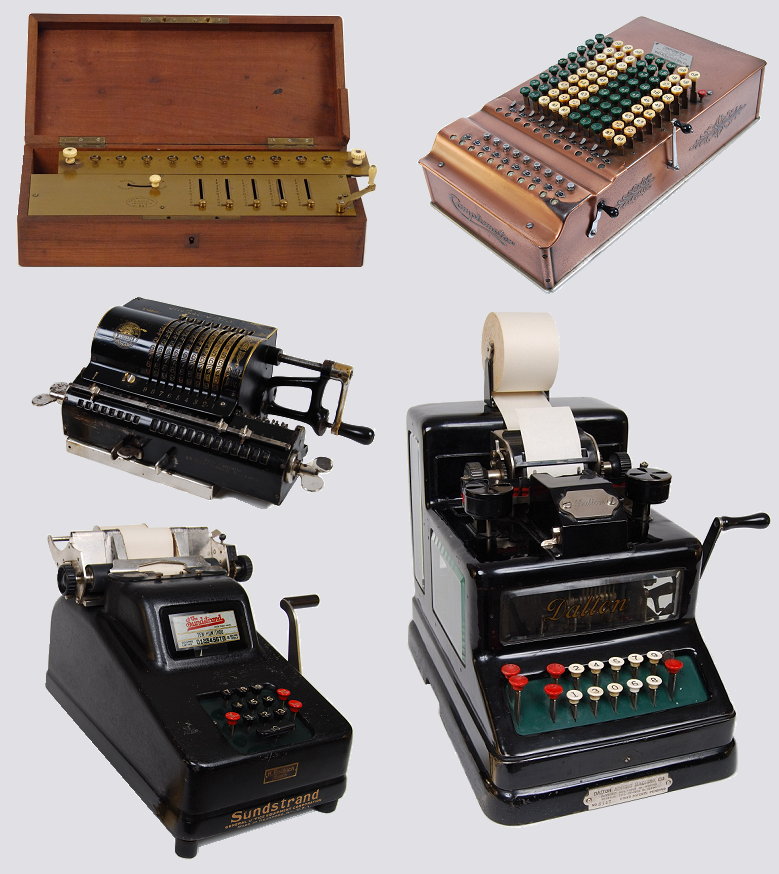 A collage I made of various Mechanical calculator keyboards. These pictures of my calculators were taken for me by Steve Behr and Sarah Robinson.